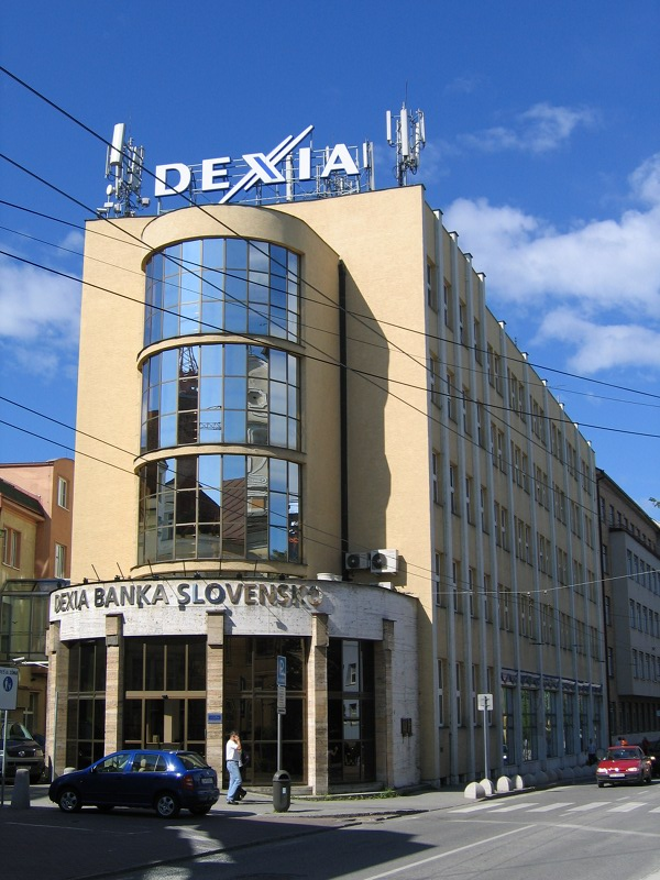 Žilina, Finančný palác